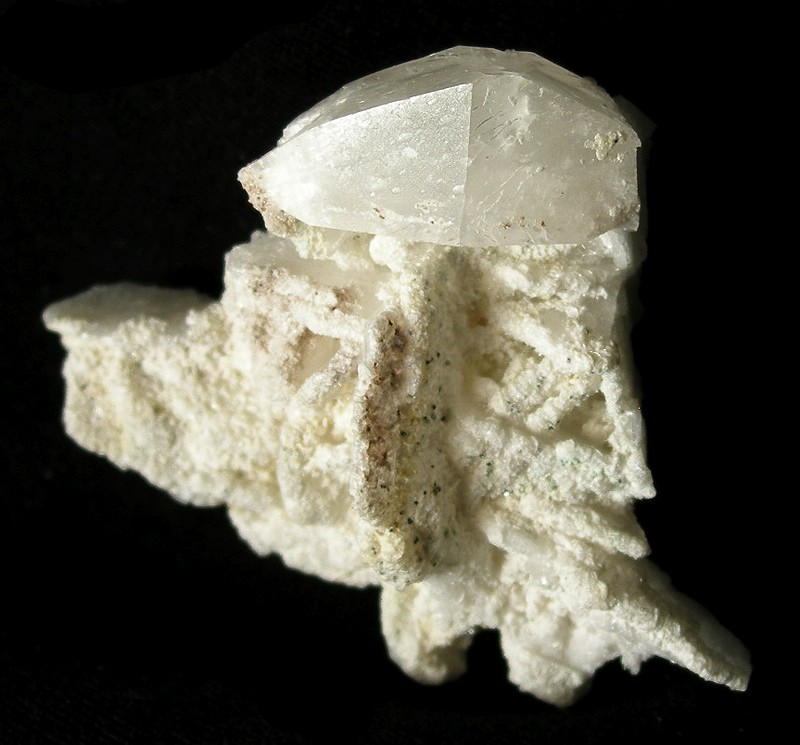 Hambergite Locality: Paprok, Nuristan Province (Nurestan; Nooristan), Afghanistan (Locality at ) Size: miniature, 5.5 x 4.6 x 2.5 cm HAMBERGITE Matrix hambergites are for some reason rare, and for that matter good sharp crystals are pretty rare on a worldwide basis in and of itself. Afghanistan has recently produced some of the best yet known, for the species. Some are giants, but few are sharp, and gemmy as we have here. This specimen hosts a gorgeous, 2.3 x 1.1 x 1 cm crystal of hambergite, sharply twinned and with SHARP faces and edges as opposed to the usual etched faces we often see. Both the sharpness and the twinning are extremely uncommon, even from this productive locale. It is perched as if floating on a cloud of albite matrix. Especially for the size range, I can hardly imagine a better example.